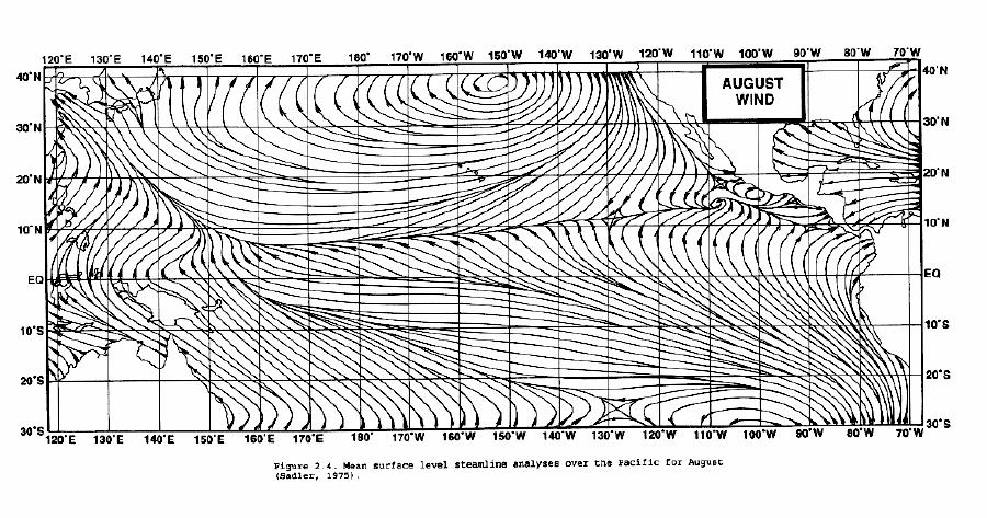 U.S. Navy, Naval Research Lab